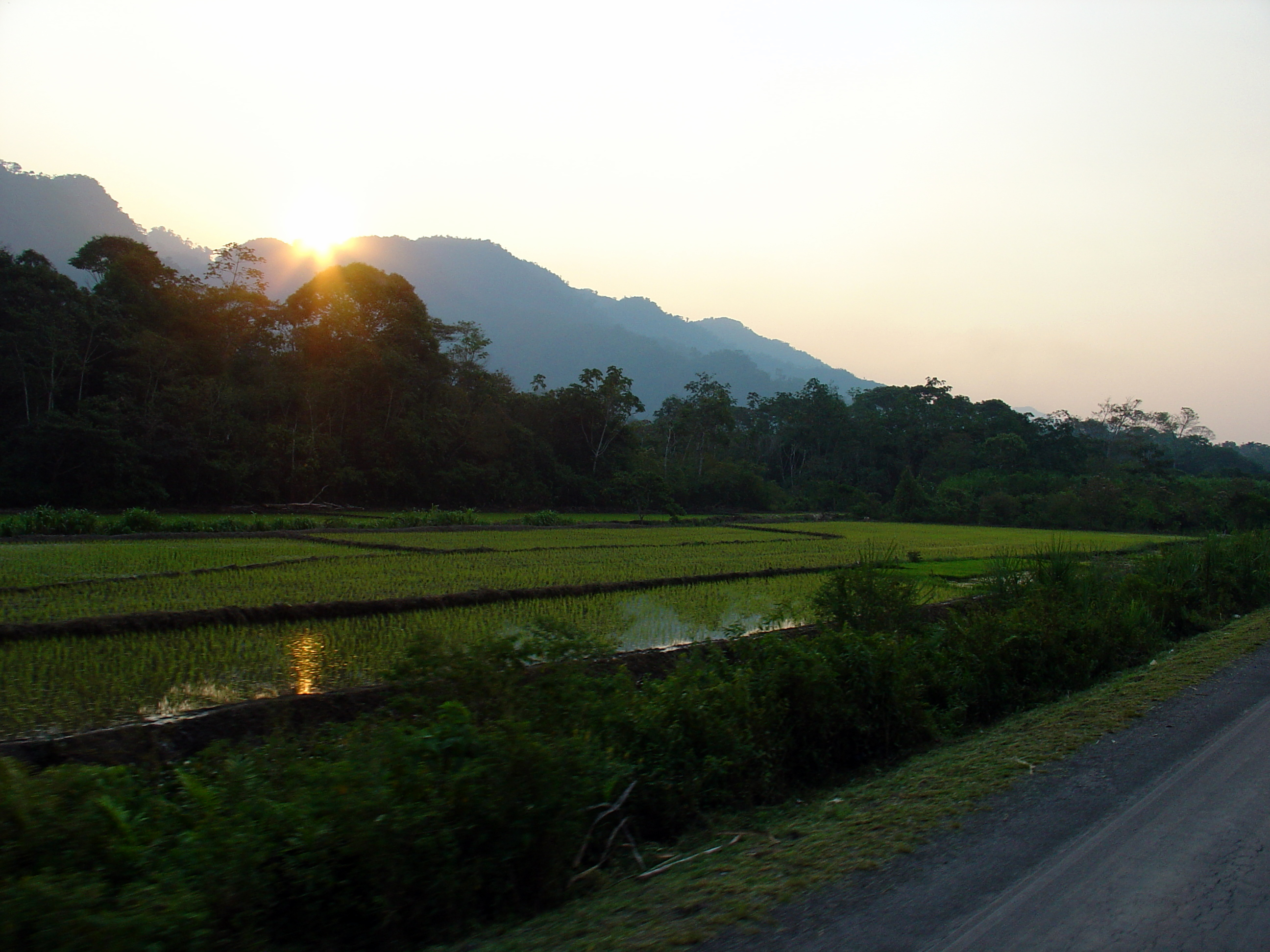 Scenery in the Tarapoto area, Peru